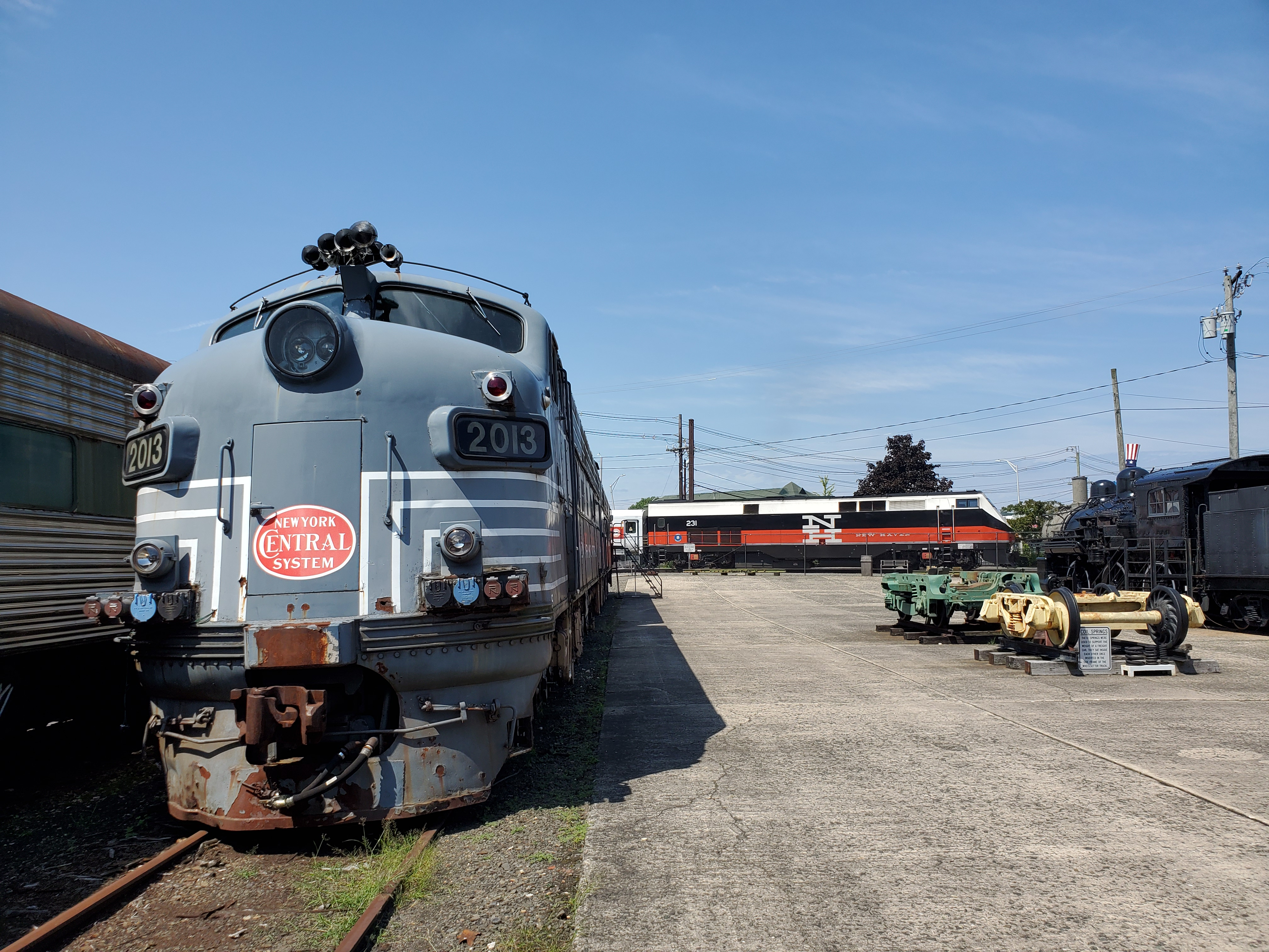 New York Central Railroad 2013 (EMD FL9) at the Danbury Railway Museum in Danbury, Connecticut